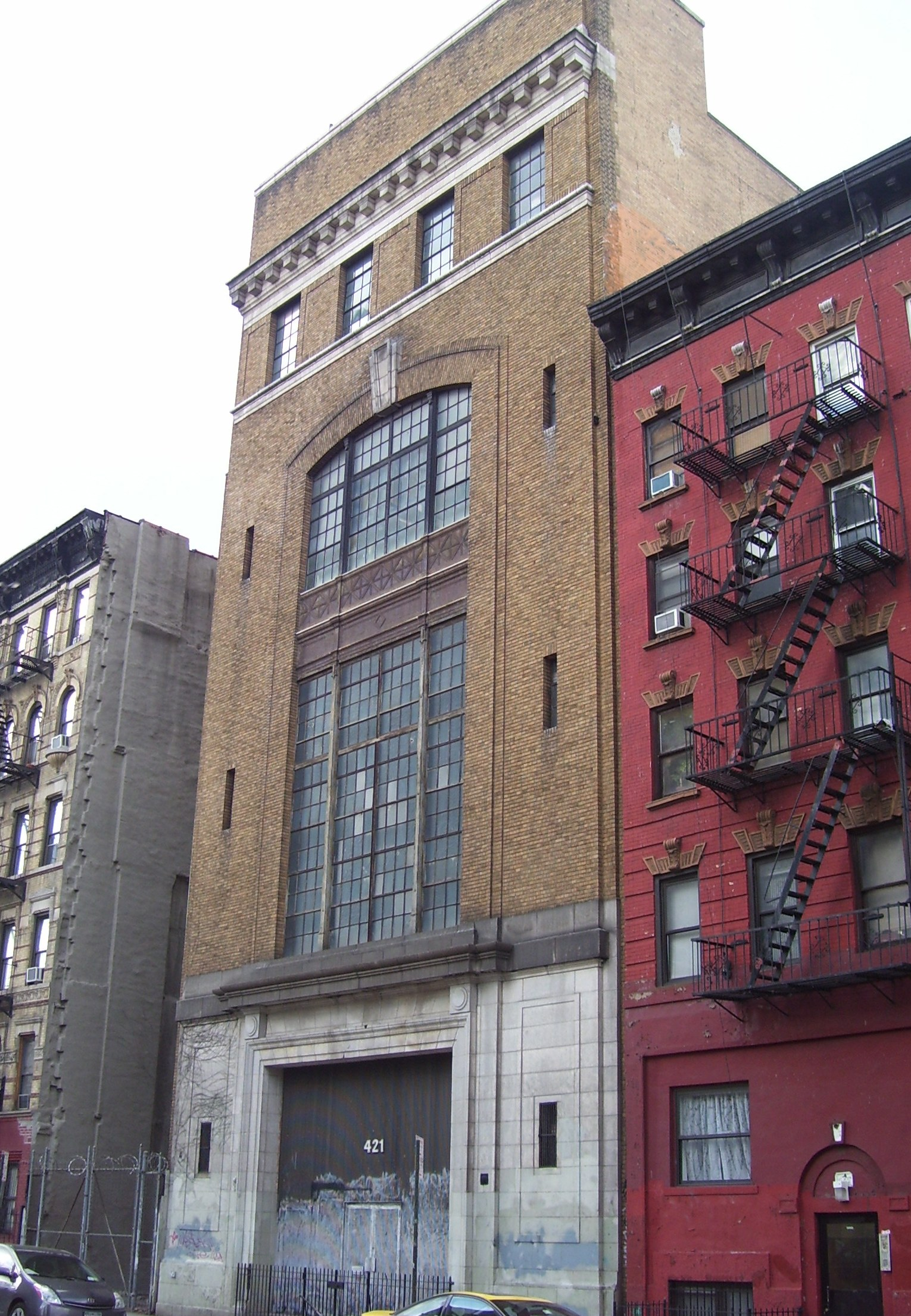 421 East 6th Street between Avenue A and First Avenue in the East Village neighborhood of Manhattan, New York City was built in 1919 as a transformer substation for the New York Edison Co., and was designed by William W. Whitehill in the Neo-classical style. It converted DC current into AC. The bulding was converted to a multi-use commercial structure in 1963, and has been owned by artist Walter De Maria since 1980. It is located within the East Village/Lower East Side Historic District (Sources: "East Village/Lower East Side Historic District Designation Report" and "Sixth Street" on New York Songlines)